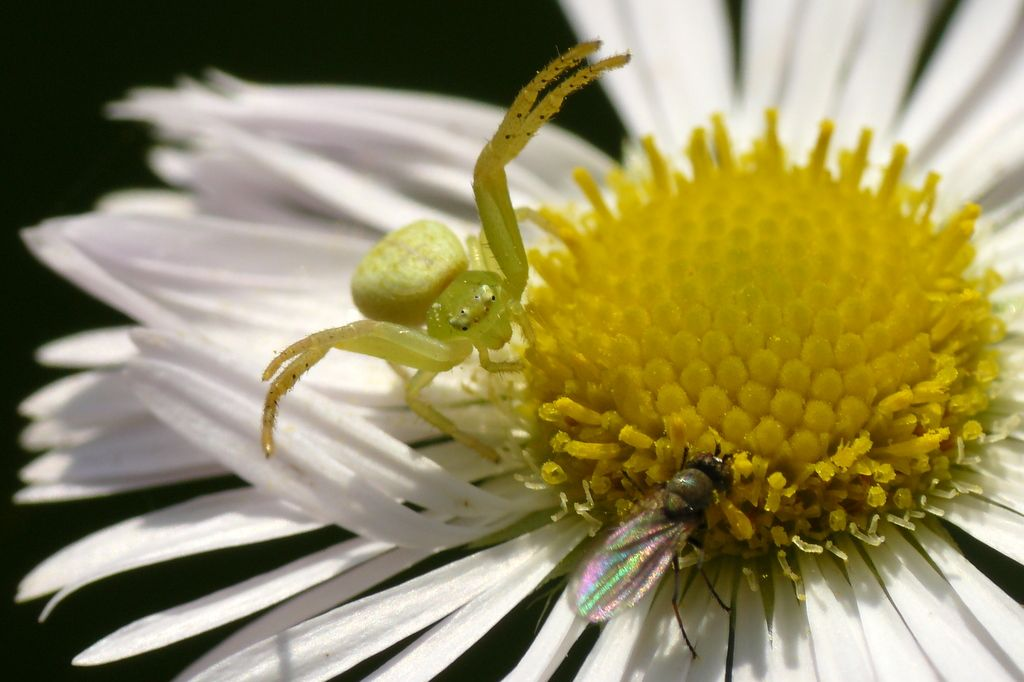 Misumena vatia